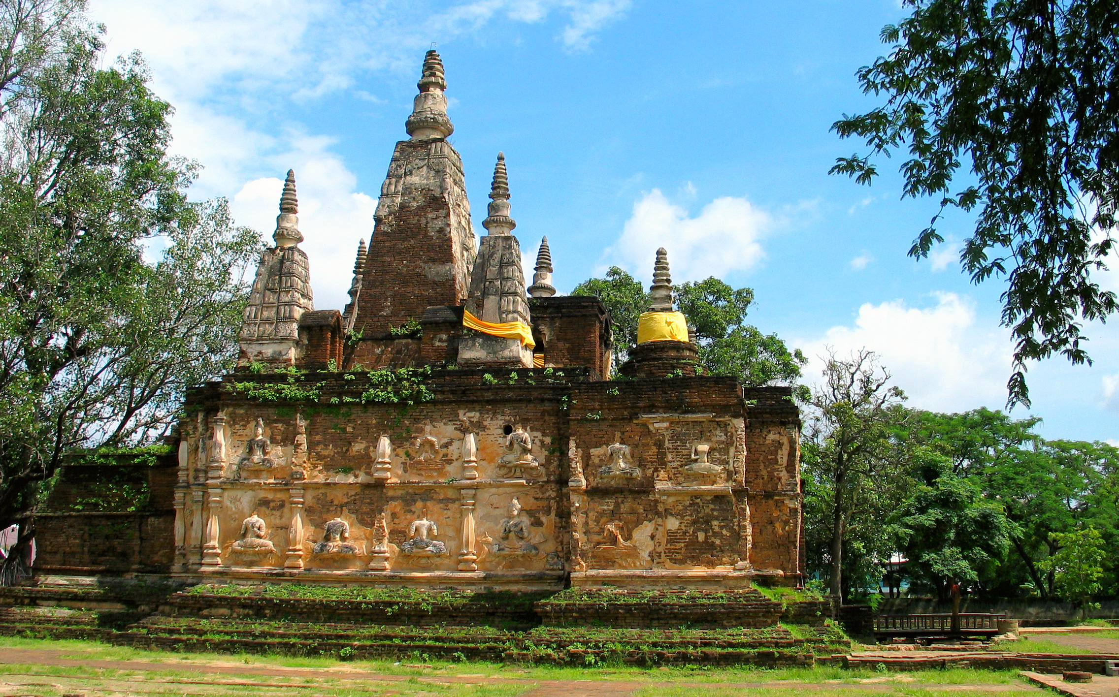 Wat Chet Yot, buddhist temple in Chiang Mai, northern Thailand